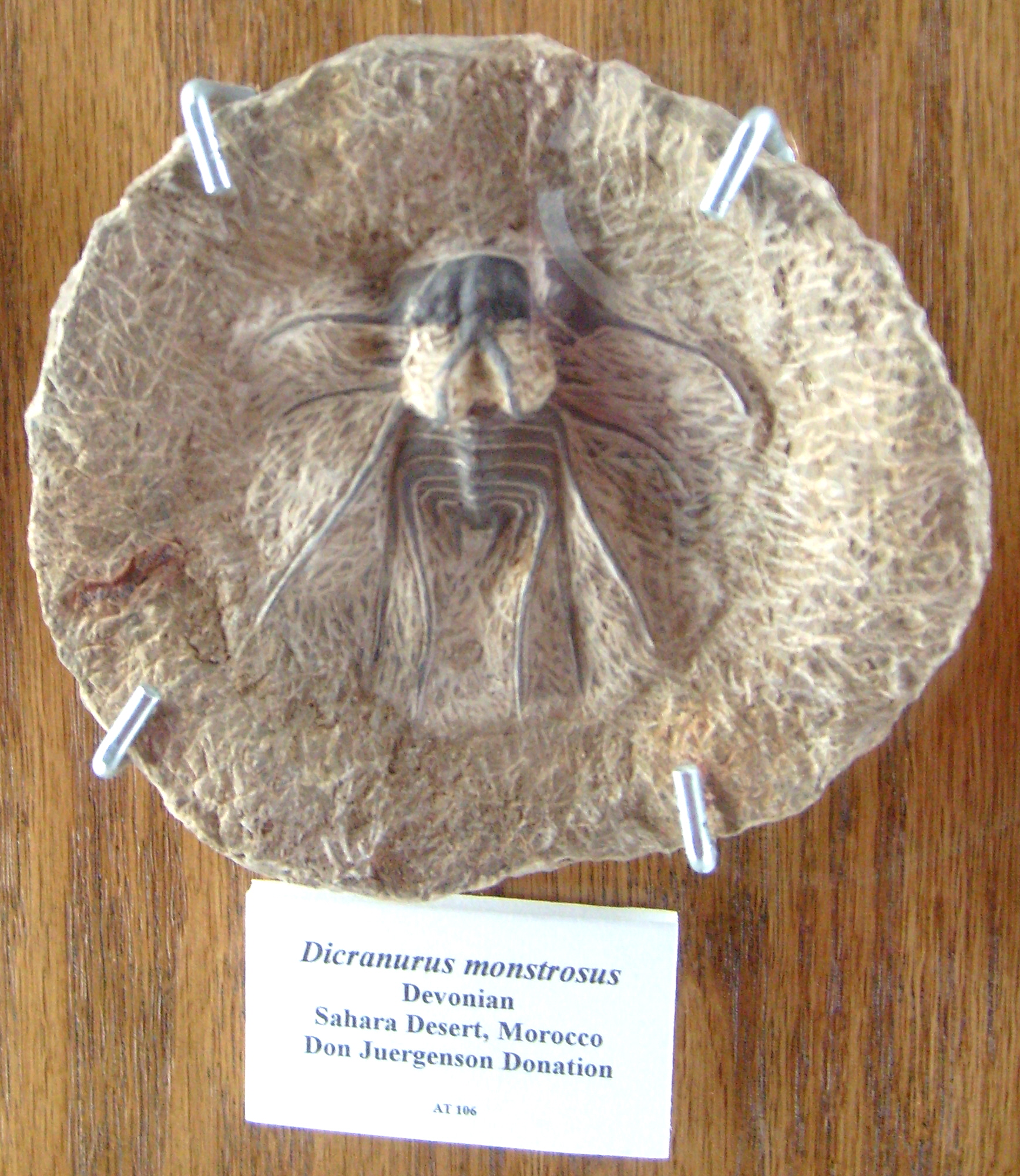 Dicranurus monstrosus fossil. One of the specimens in the trilobite display in Sierra College's Natural History Museum in Rocklin, California.